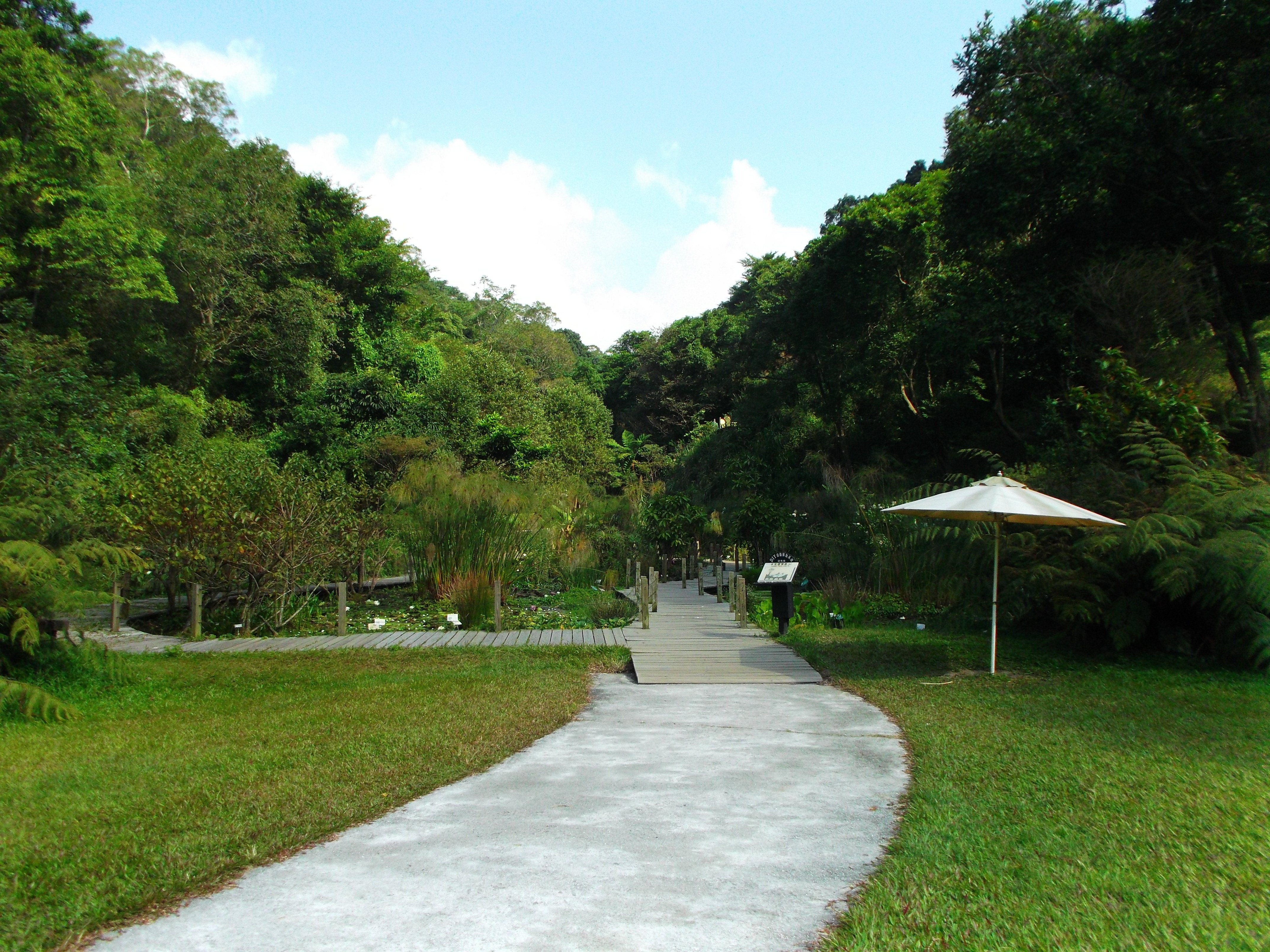 The entrance of Water Plants Park in Green World Ecological Farm